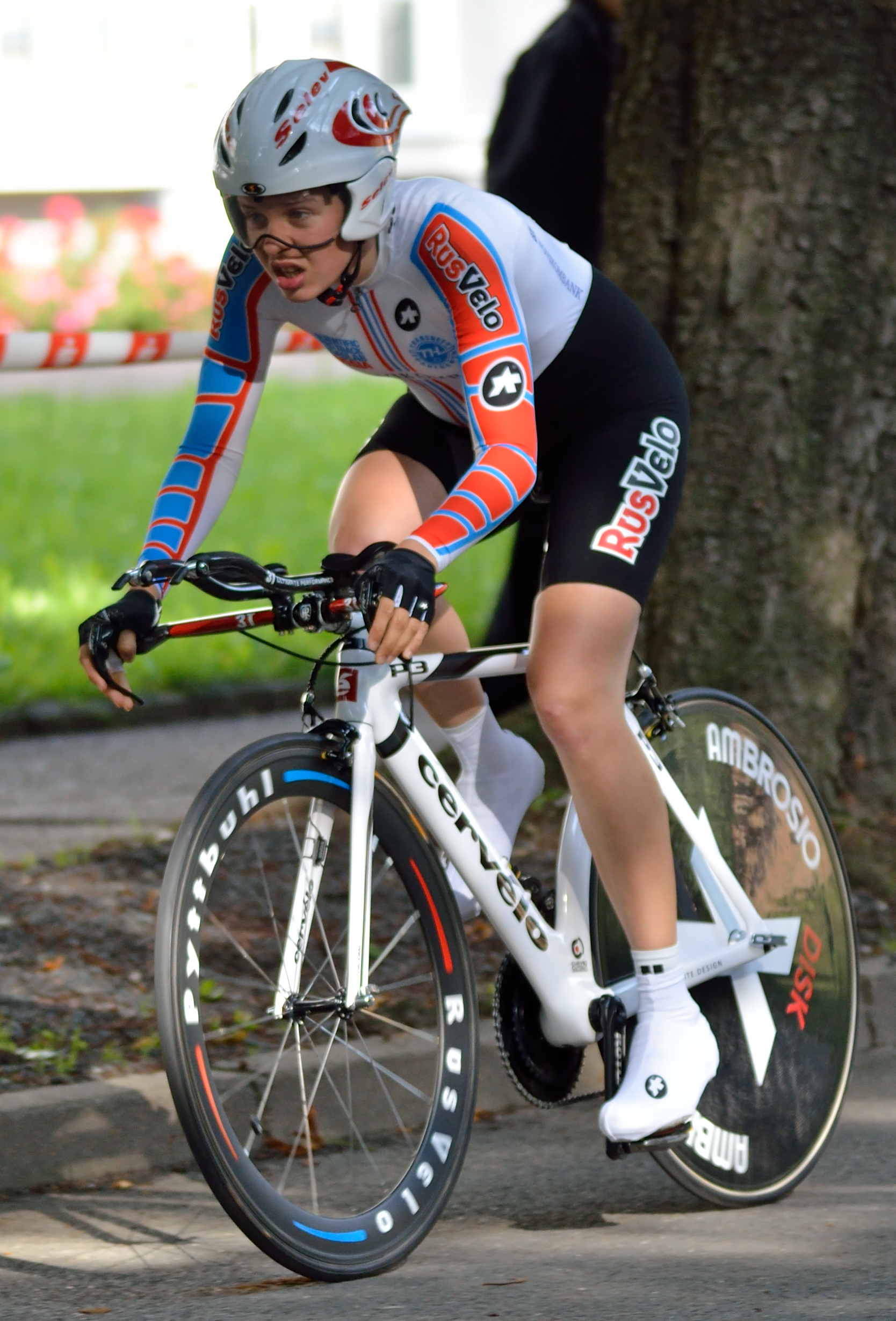 Romy Kasper from the RusVelo team during the Women's Tour of Thuringia 2012 in Zwickau, Germany.